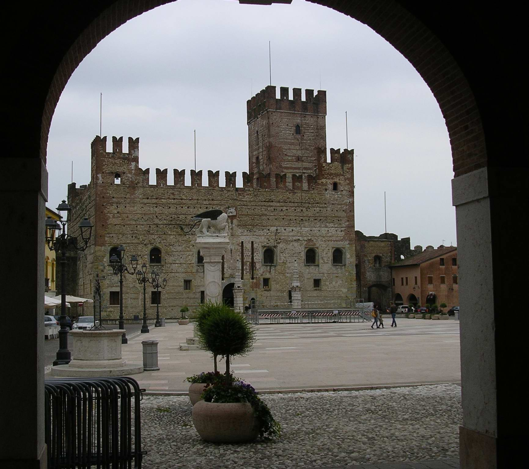 Marostica (Italy), Castello inferiore, 14.-15. century